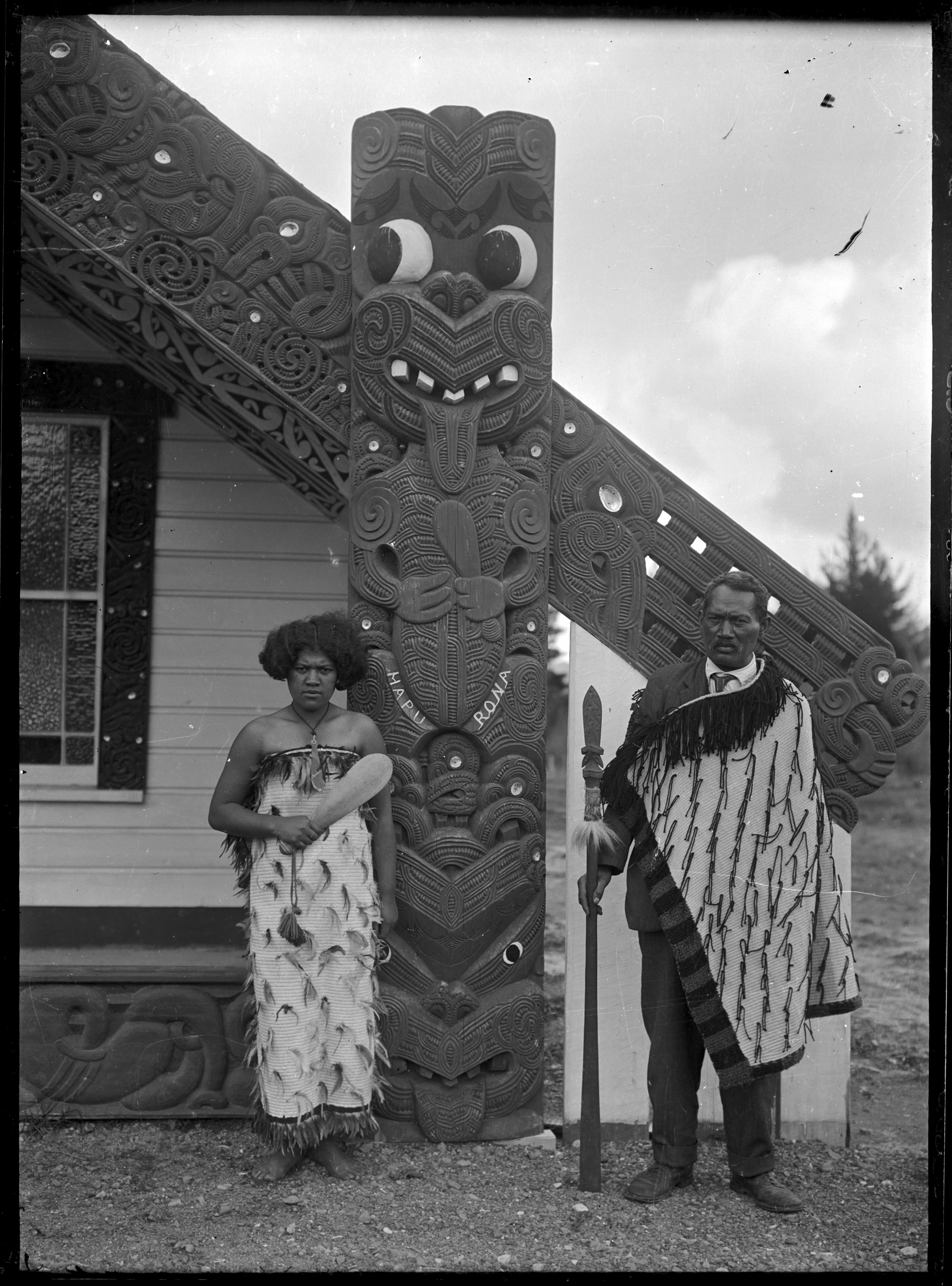 Chief Matekuare and his daughter Tuki standing outside a meeting house at Te Whaiti. He is wearing a kakahu (cloak) and holding a taiaha. His daugher is also wearing a cloak and holding a mere. Photograph taken by Albert Percy Godber in October 1930.